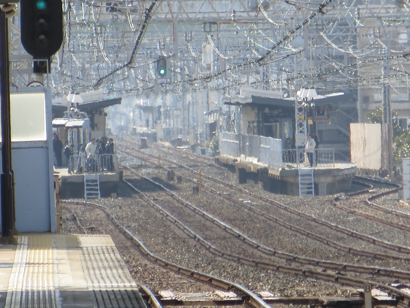 Viewed from Sembayashi Station, Morishoji Station(Center) and Sekime Station(Back left).